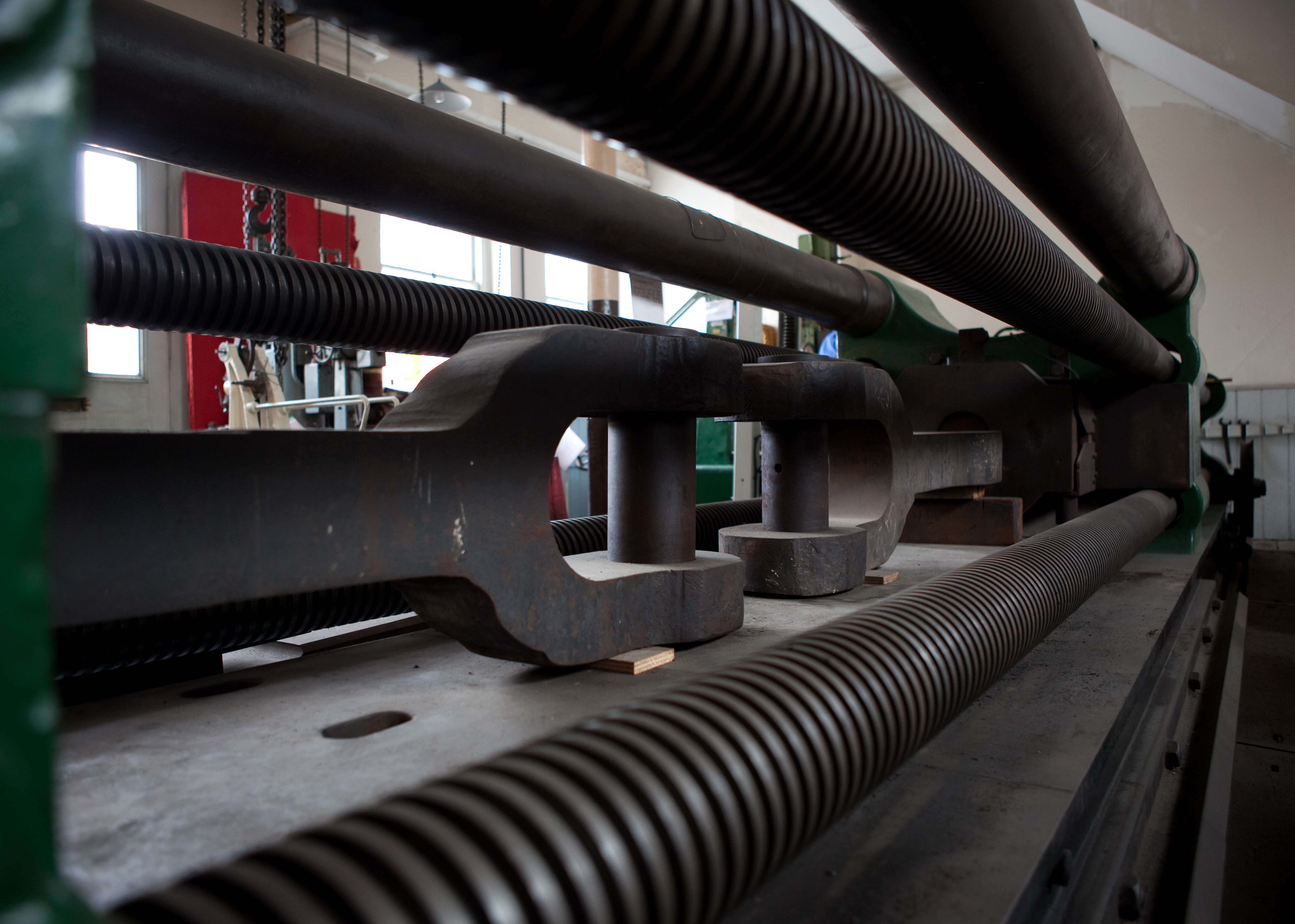 440 tons of push and shove